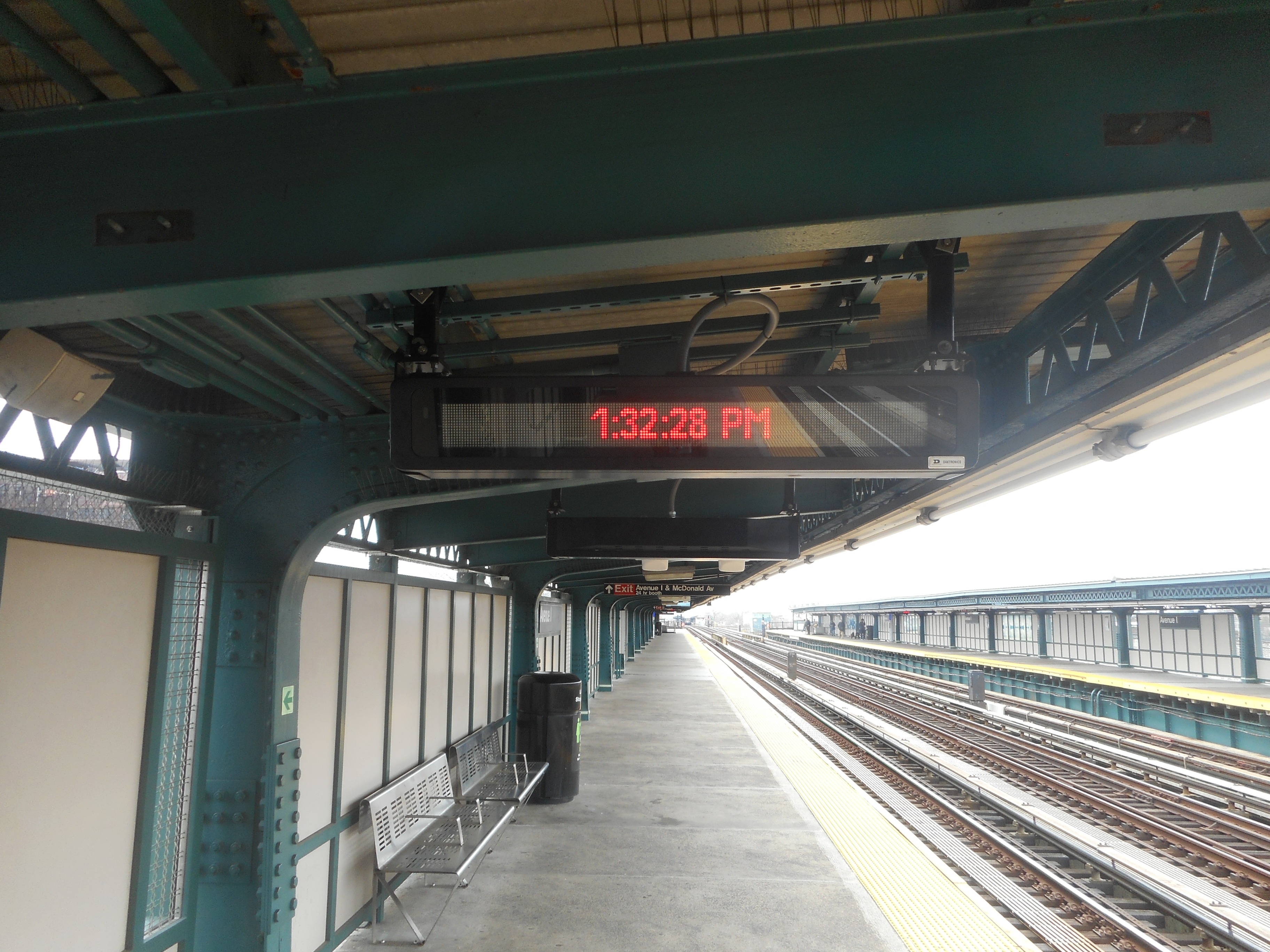 A first generation PA/CIS countdown clock above the Coney Island-bound platform of the Avenue I rapid transit station on the IND Culver Line in the Midwood and Mapleton sections of Brooklyn, New York City. Another shot of this clock exists, but it came out with so much glare and distortion, I refuse to publish it.